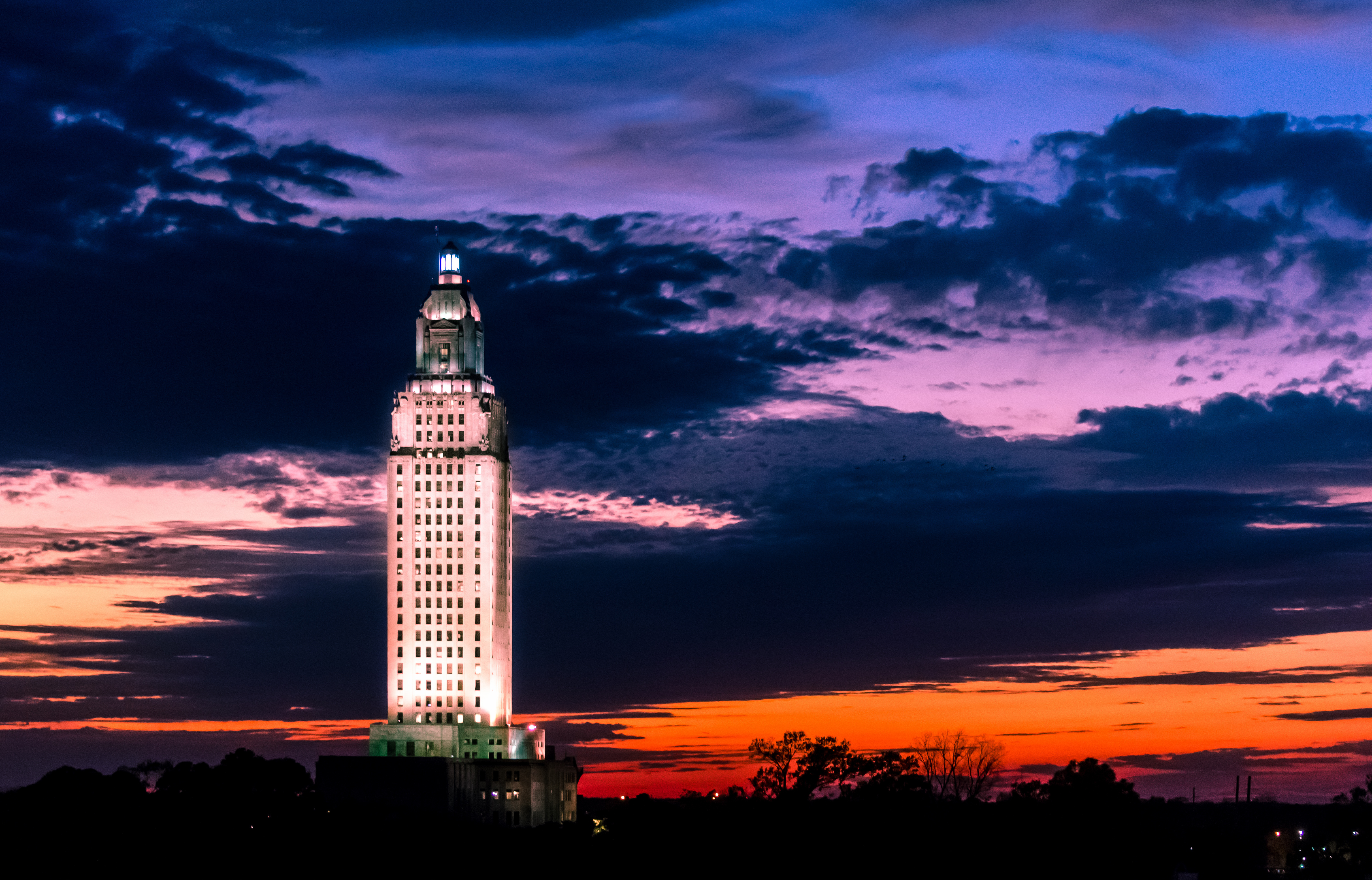 View of State Capitol, Baton Rouge, Louisiana